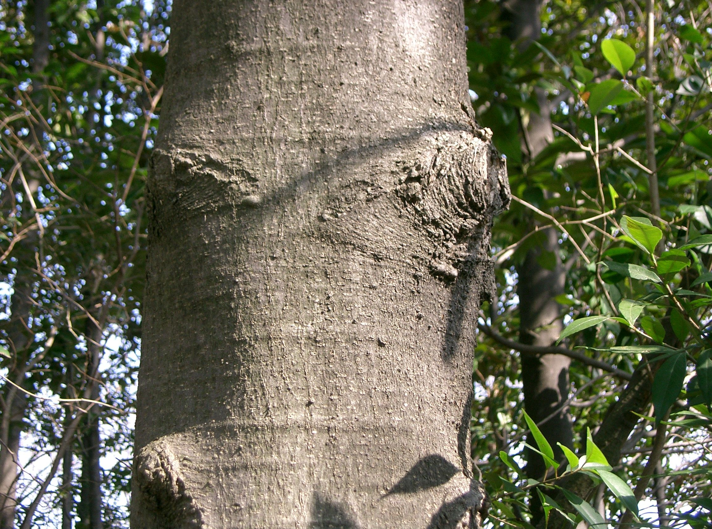 Magnolia grandiflora, Hyogo-ken Japan